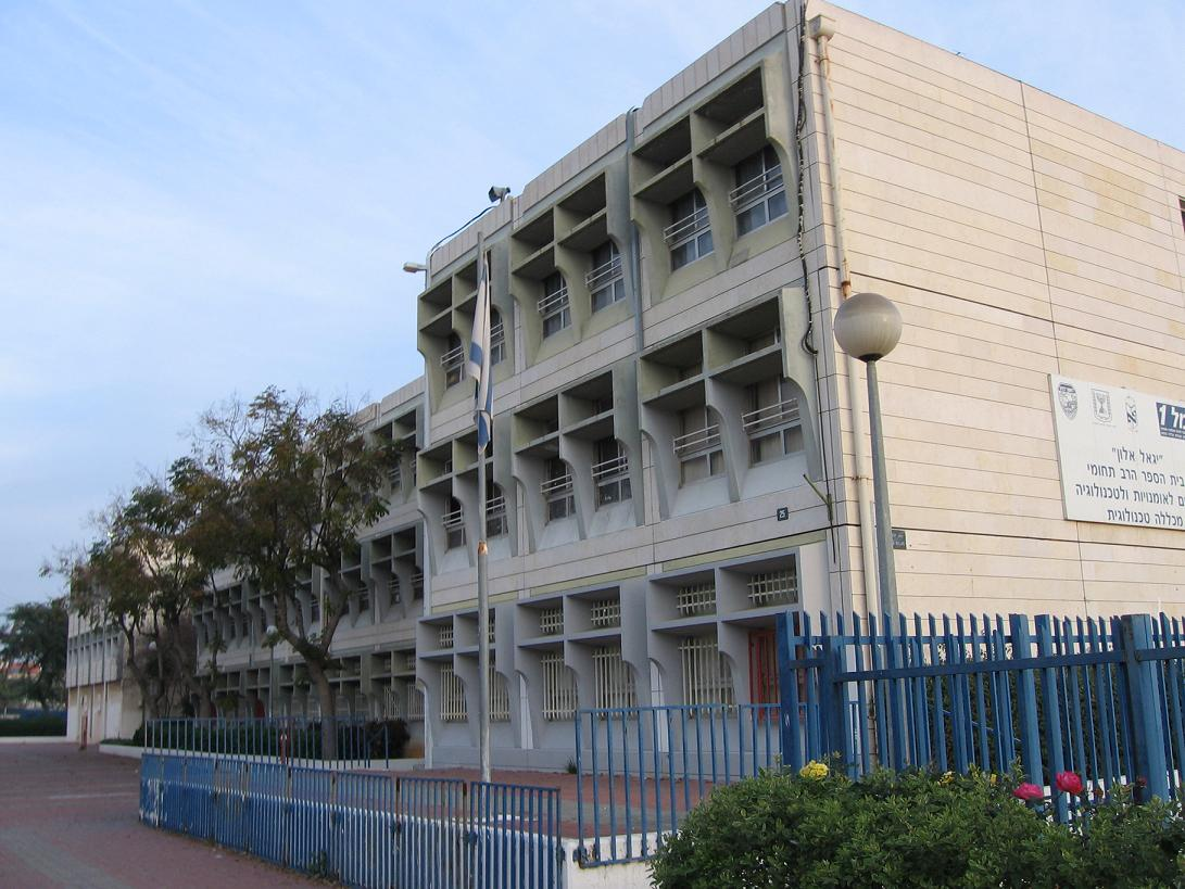 Yigal Alon Highschool in Rishon LeZion